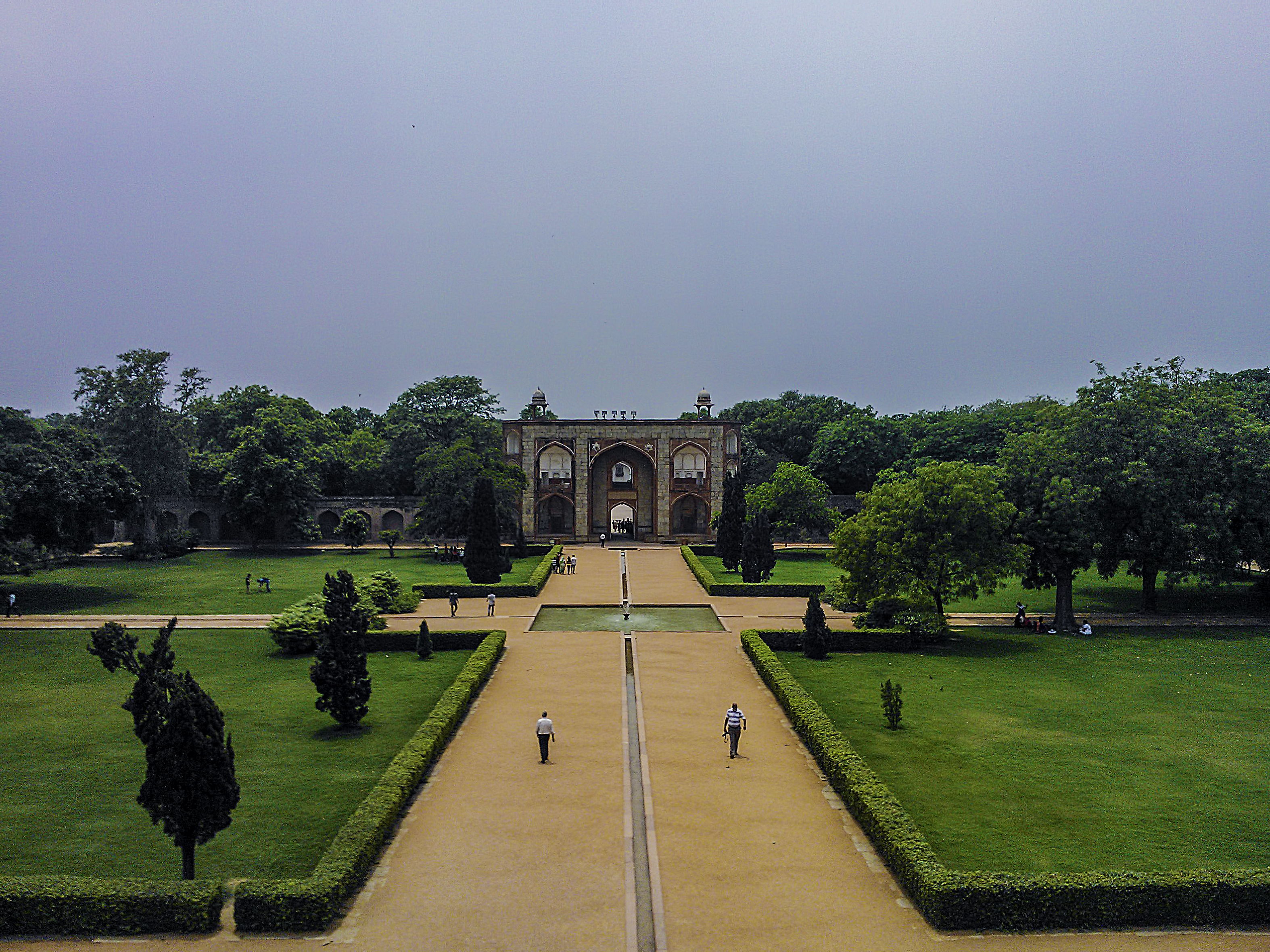 Entrance of Humayun's Tomb, New Delhi, India.